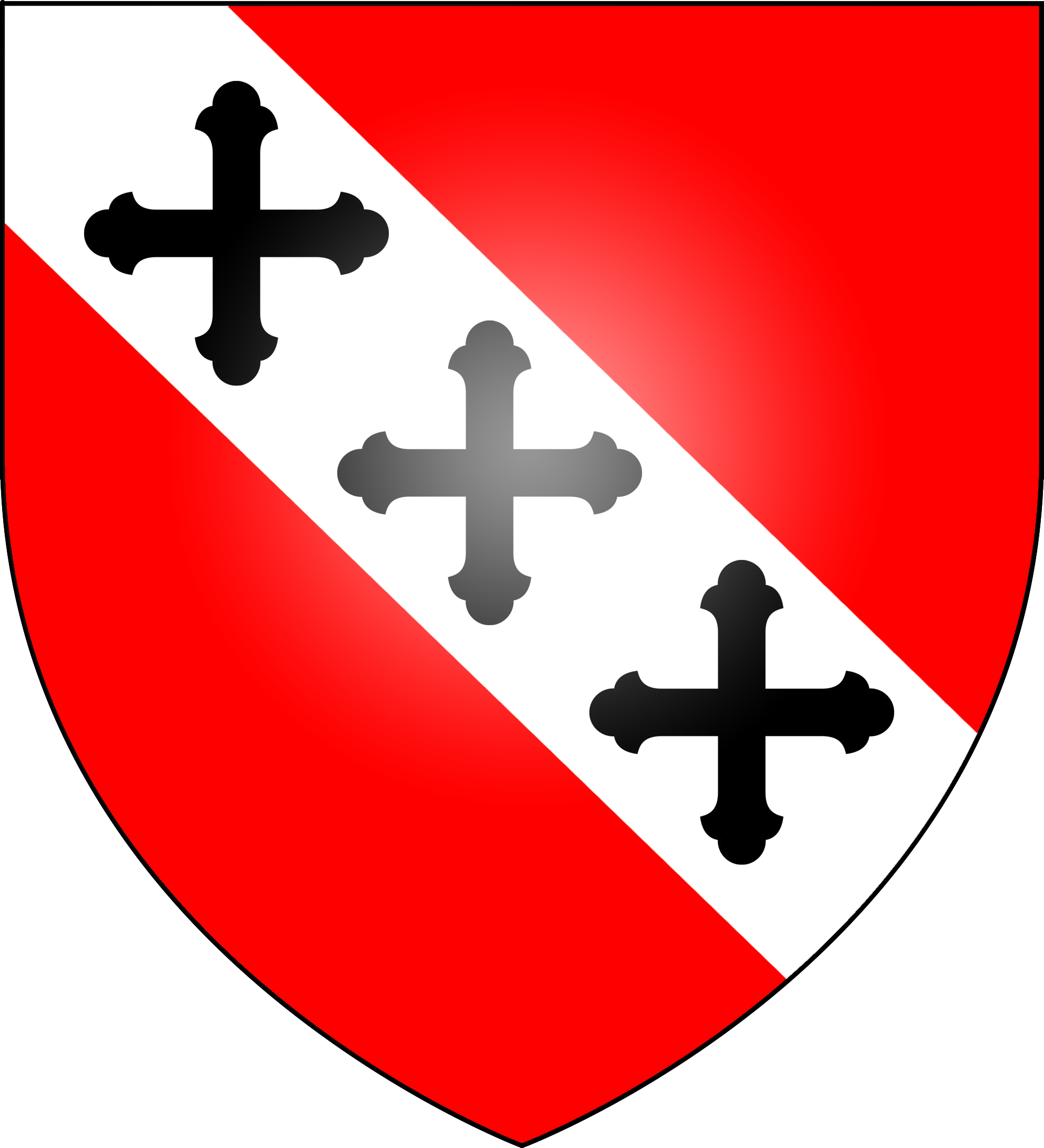 gules, on a bend argent, three crosses patoncee sable